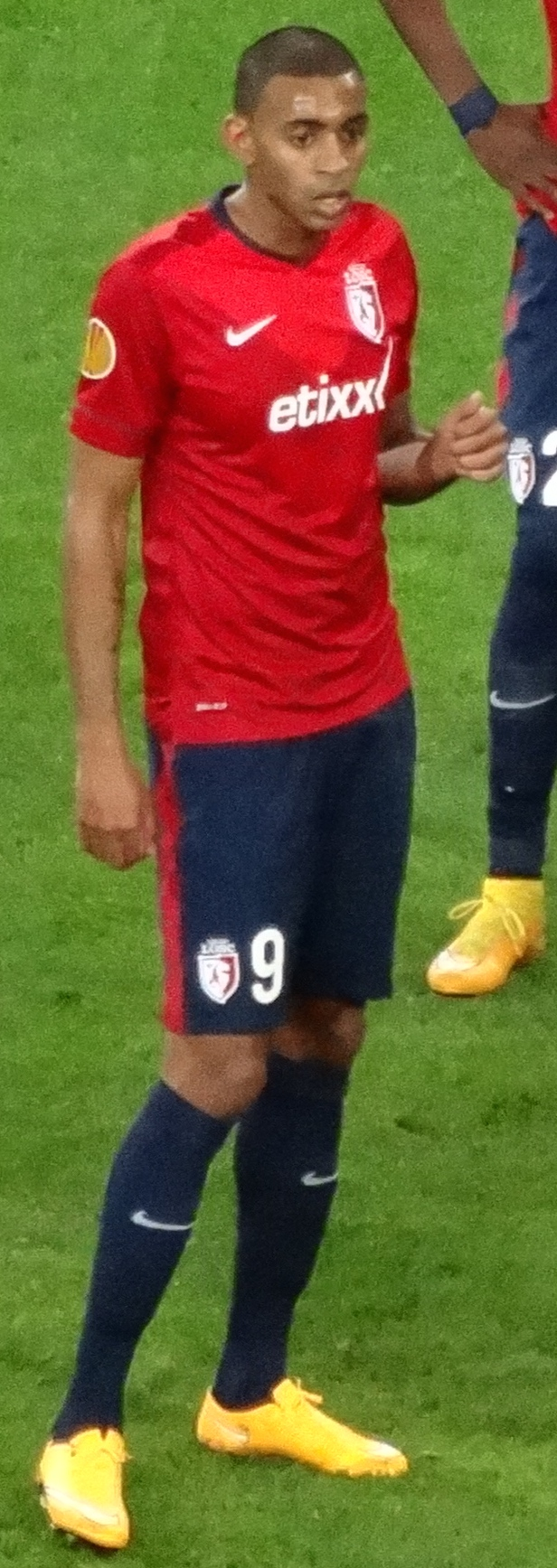 Ronny Rodelin (LOSC Lille Europa League 2014)